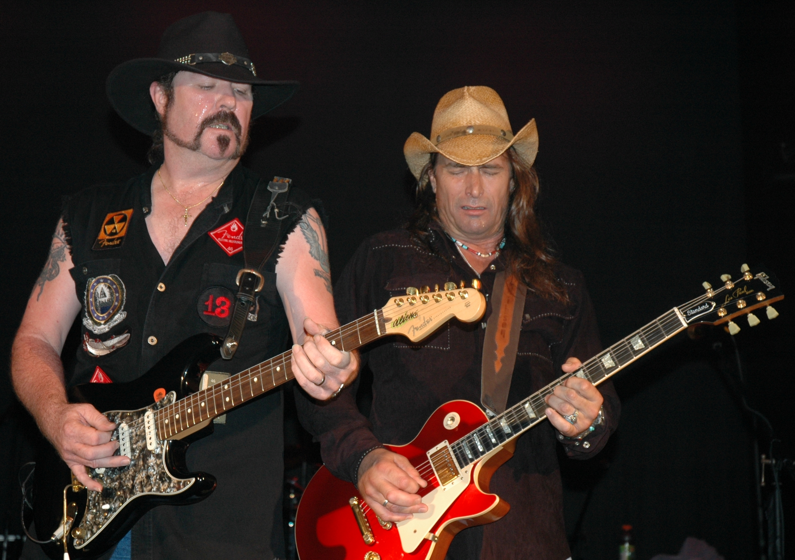 Hughie Thomasson and Chris Anderson of The Outlaws performing in Stuart, FL